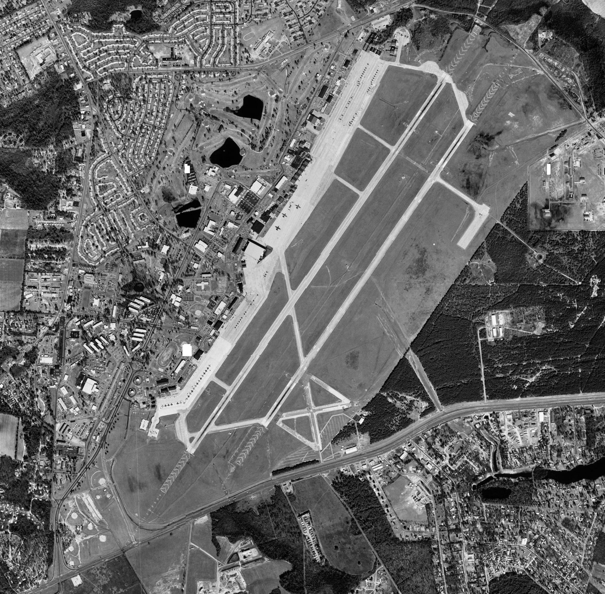 USGS orthophoto of Shaw Air Force Base in South Carolina, United States